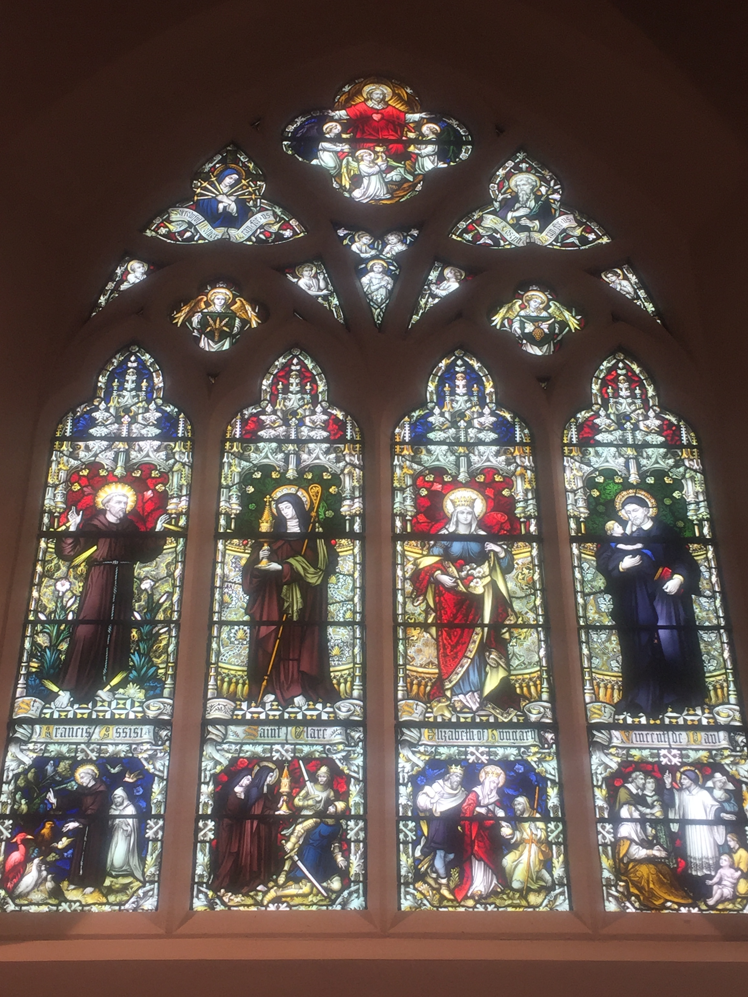 Stained Glass at St Mary's Woolton above the confessionals